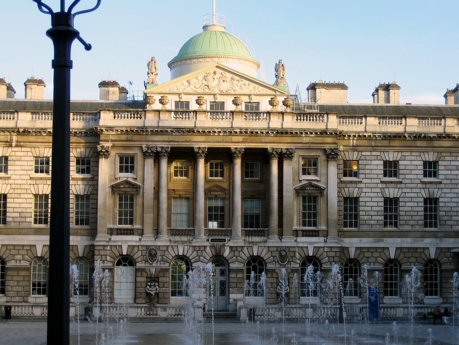 One of the grandest palaces in London, now home to several art collections, including the Courtauld Collection.